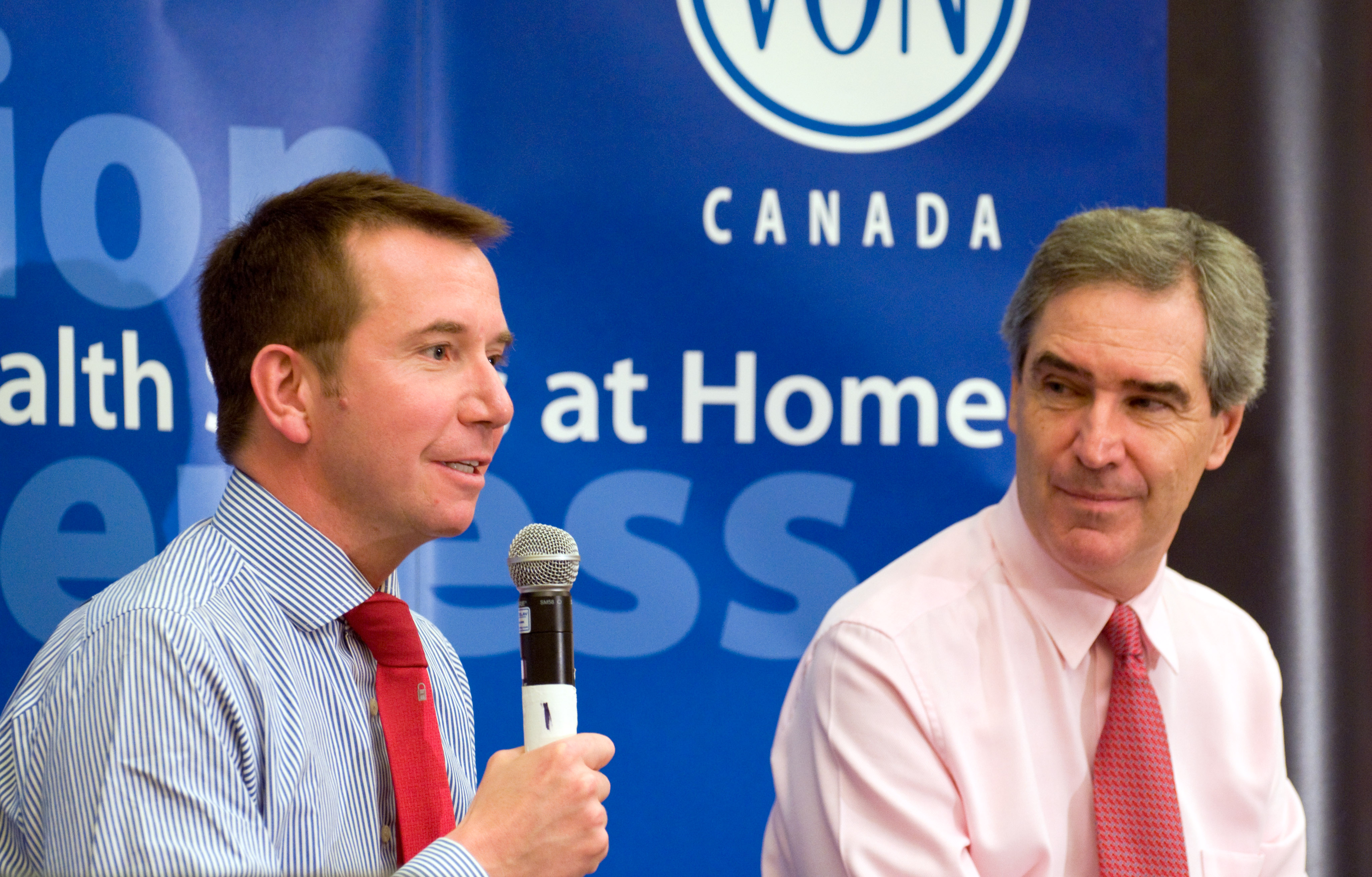 Michael Ignatieff and Scott Brison at a town hall organized by the Victorian Order of Nurses. Ottawa, Canada.